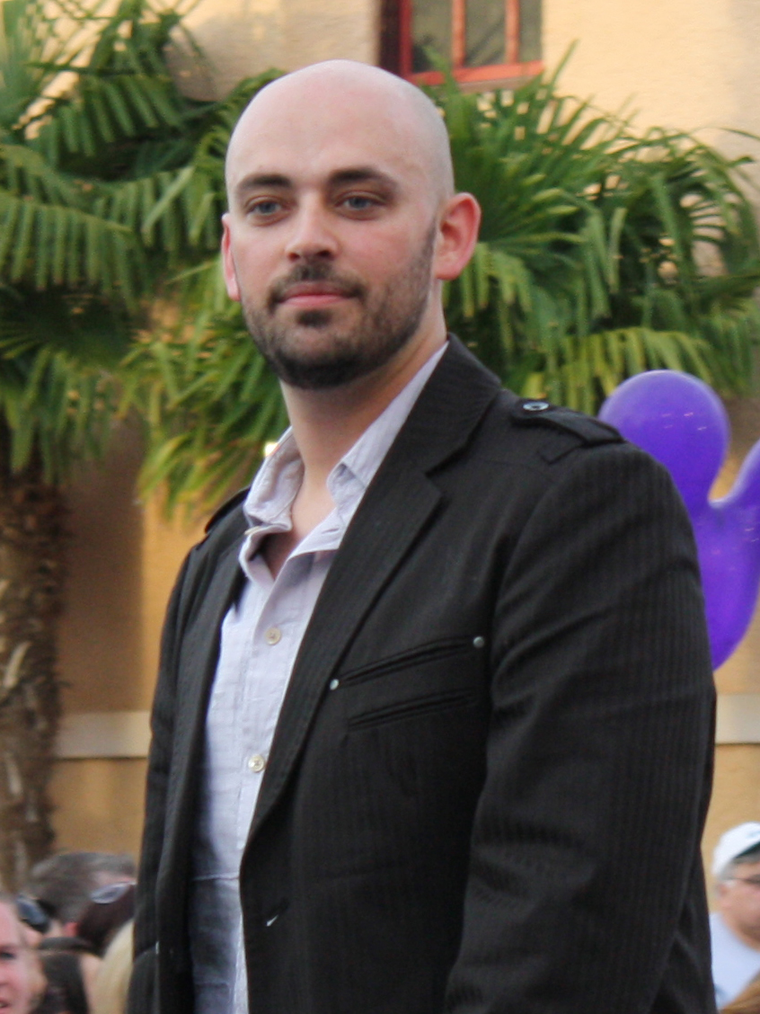 Phil Stacey, finalist on American Idol, at the American Idol Experience parade.